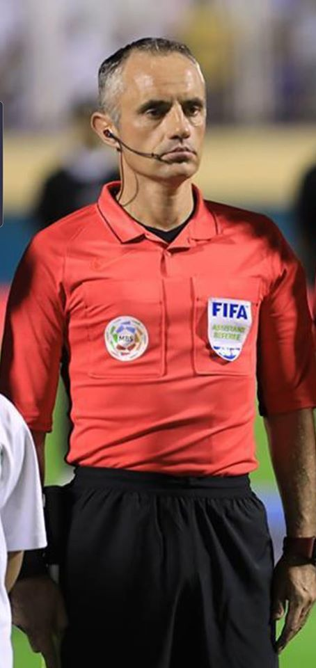 Professional League 2019/2020, Round 9, October 31, 2019, Prince Abdullah bin Jalawi Stadium, City Al Hasa, Saudi Arabia, Referee Ivan Bebek, AR1 Milovan Ristic, AR2 Dalibor Djurdjevic